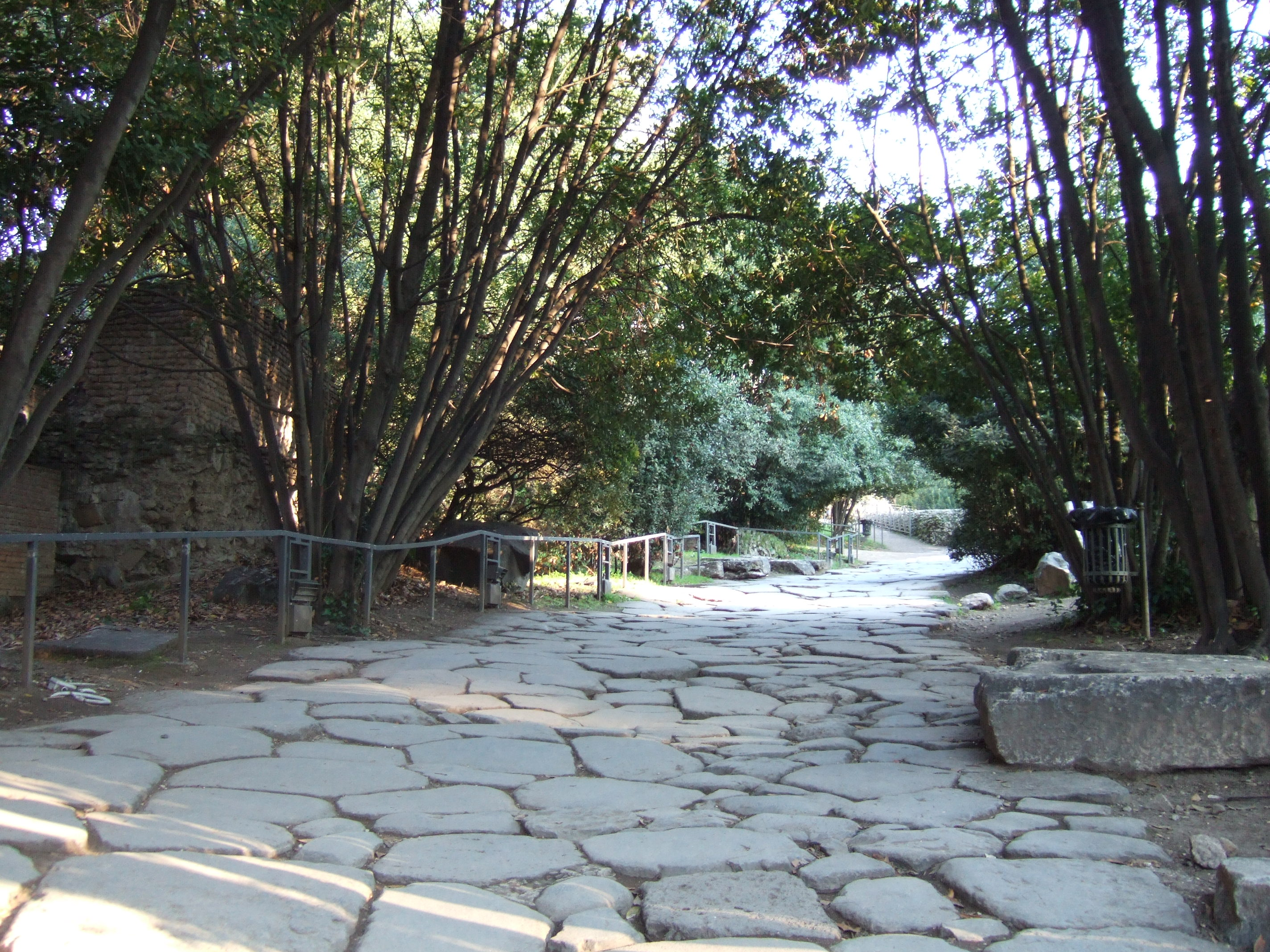 Sacred Road in Roman Forum